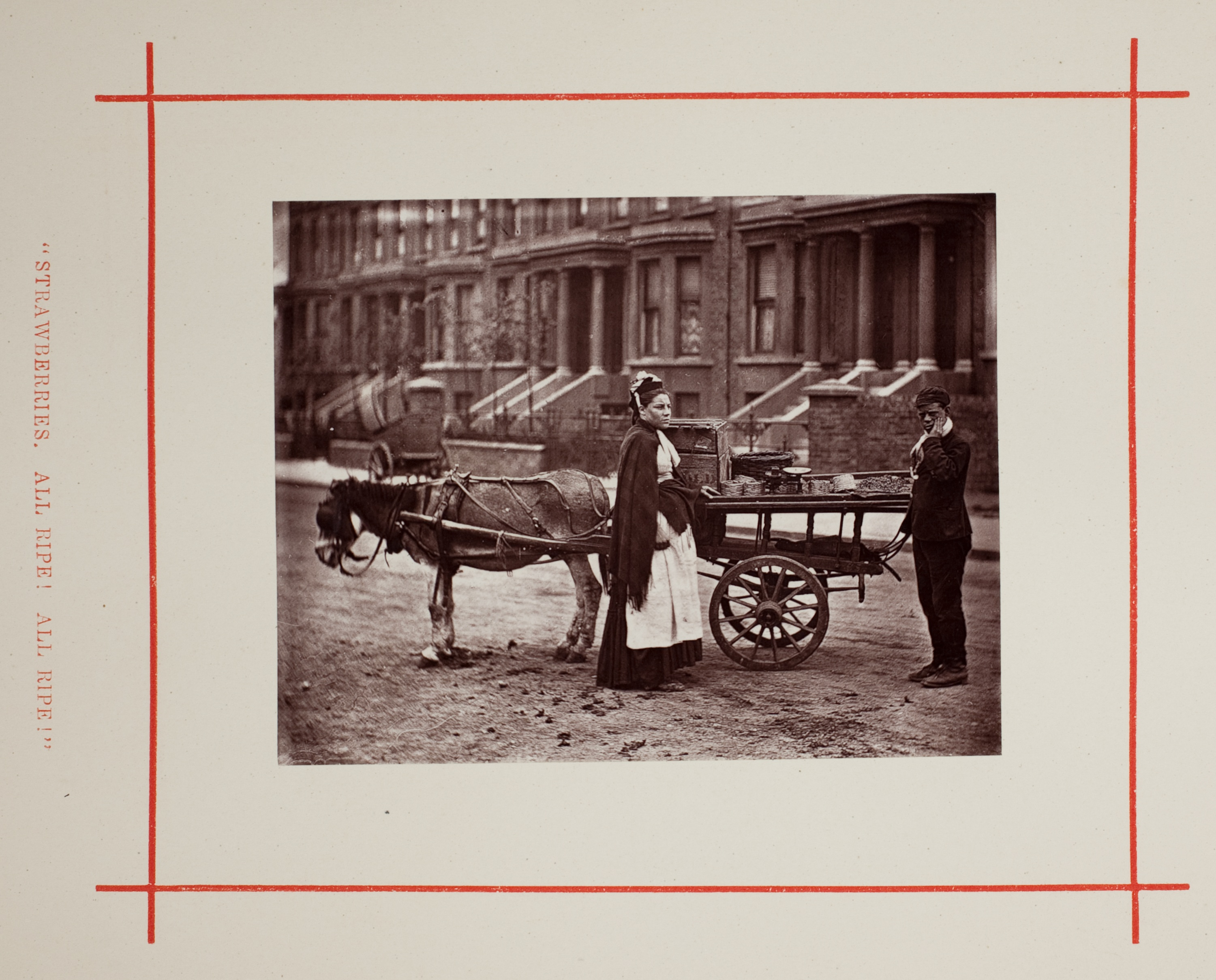 Photo by John Thomson (photographer)